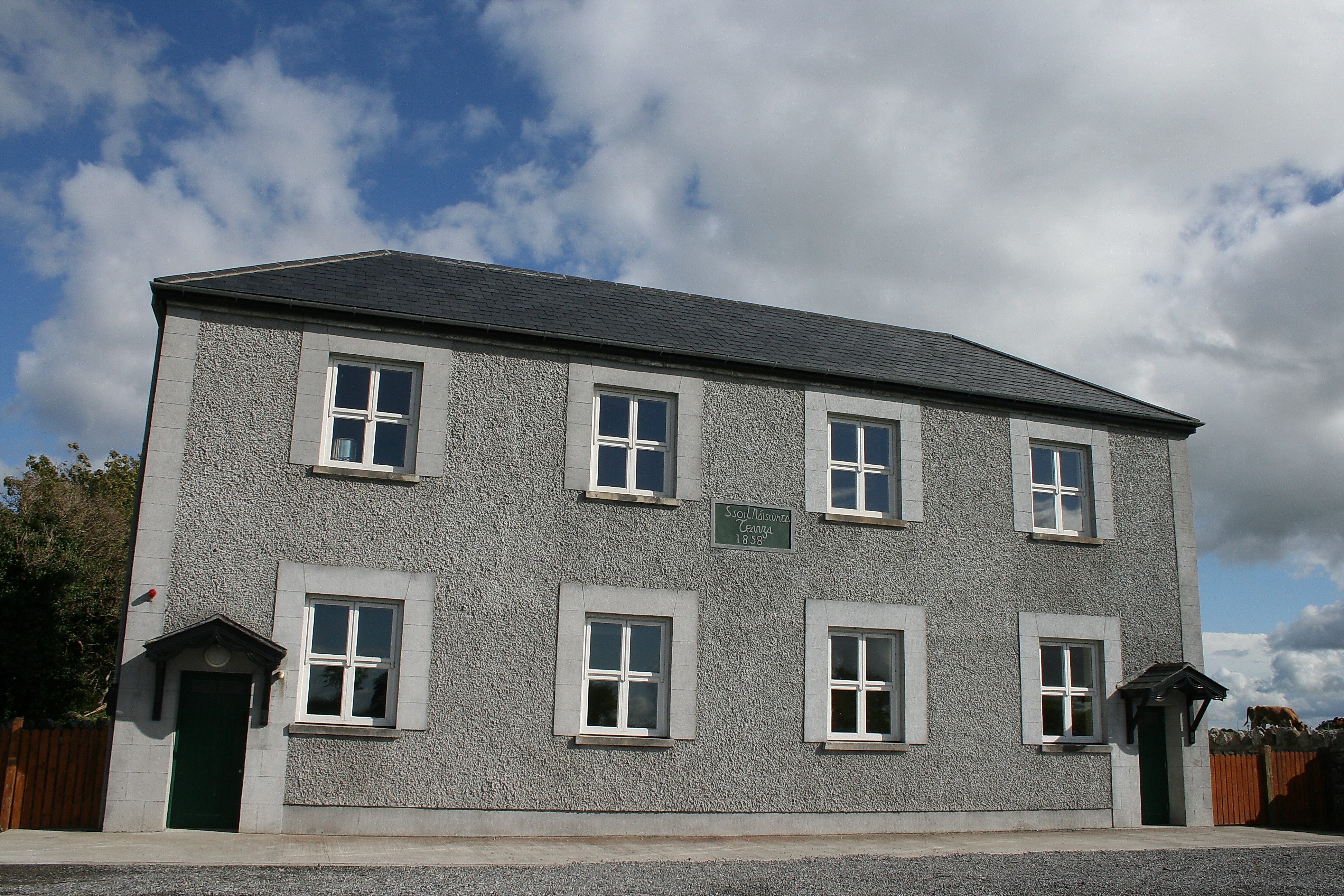 National School in Tang, County Westmeath, Ireland